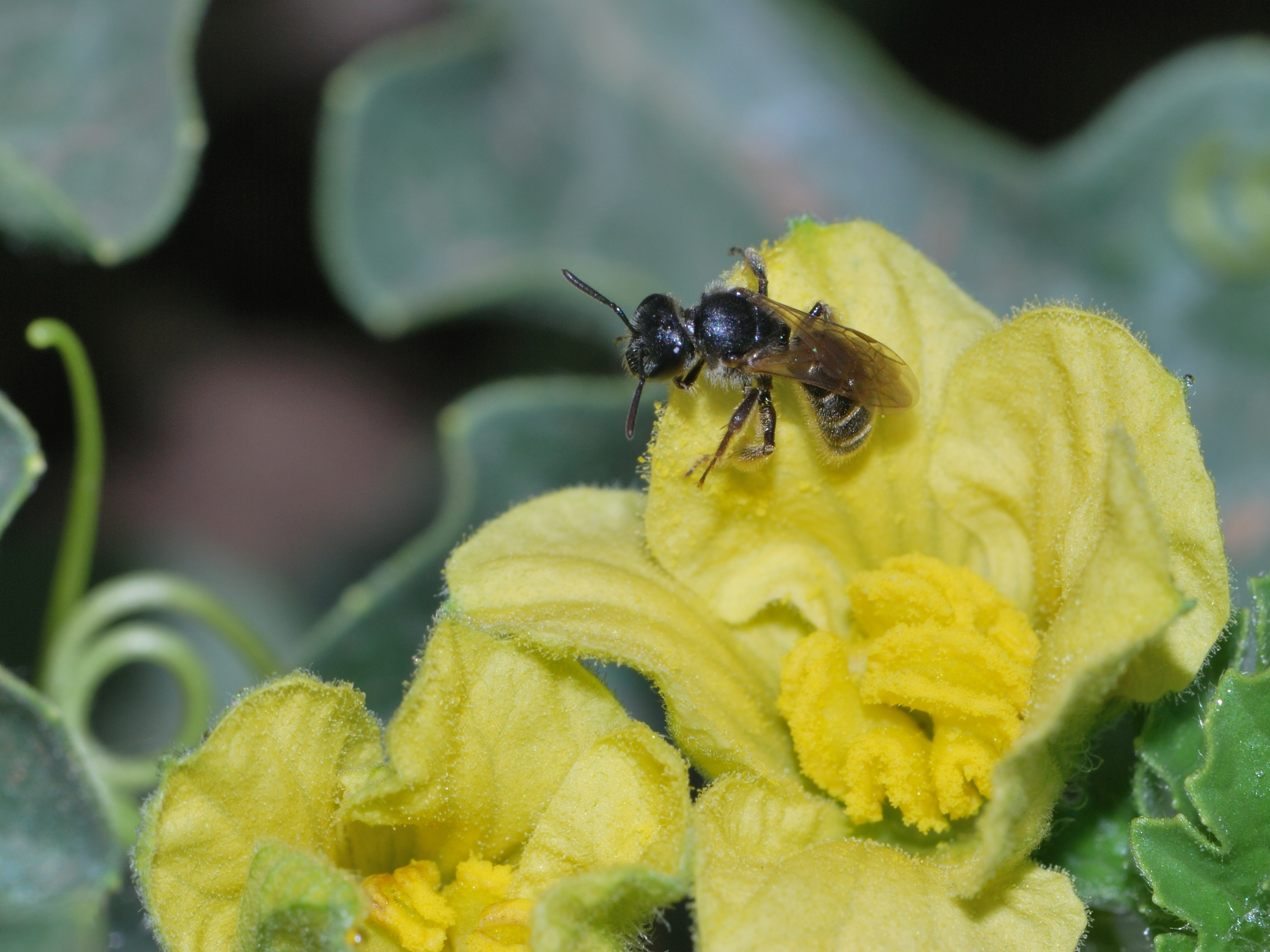 Lasioglossum malachurum, female on a watermelon flower, Hulda, Judean Foothills, Israel, June 1, 2011.